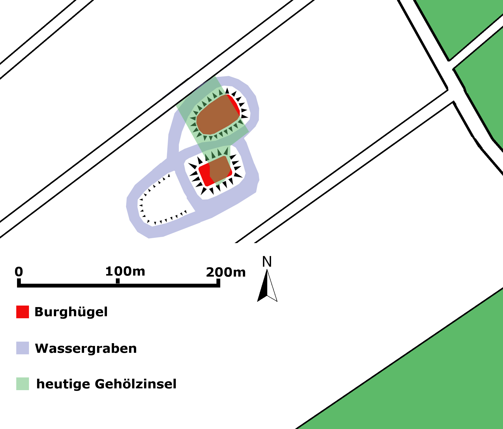 Plan of Castle Wachenbuchen, Maintal-Wachenbuchen, Hesse.